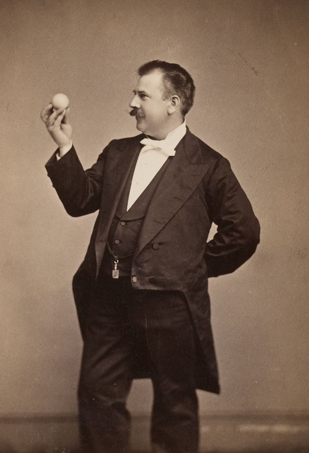 Cabinet card image of American billiards player Yank Adams (1847-1923), posing with a cue ball. From a collection dated to 1918. Cropped version. TCS 1.118, Harvard Theatre Collection, Harvard University